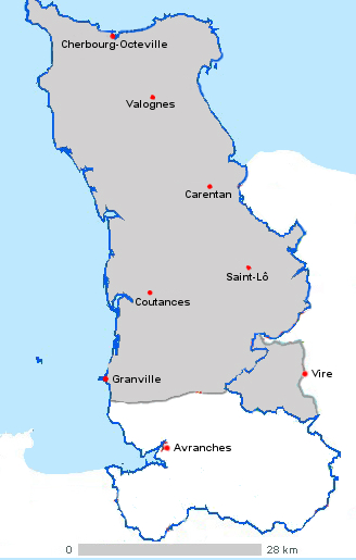 Map of Cotentin worked on the basis of CarteCotentin.jpg in fr.wiki In blue the limits of french department of Manche